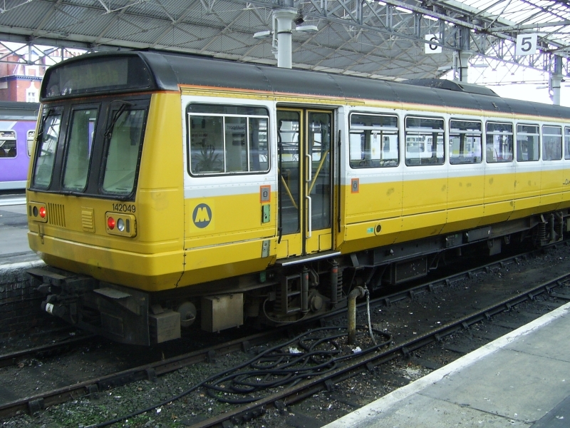 Merseyrail-liveried 142049 seen at Southport station on 22 October, 2005 on a Rochdale service.